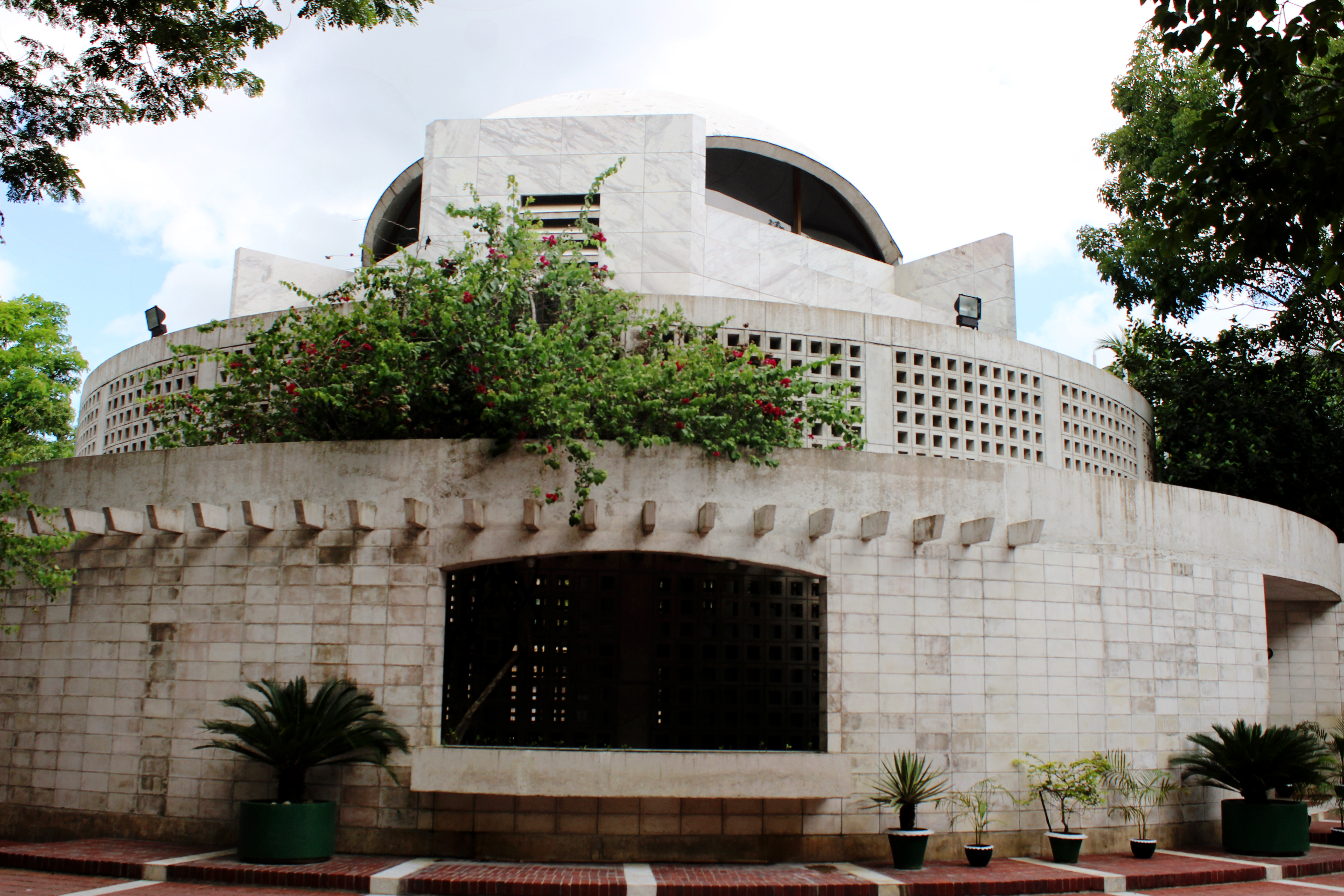 Historical Places,Tomb of Bangabandhui Sheikh Mujibur Rahman in Gopalganj Bangladesh.